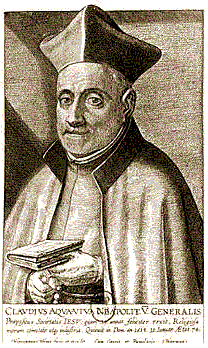 Claudio Acquaviva, S.J.